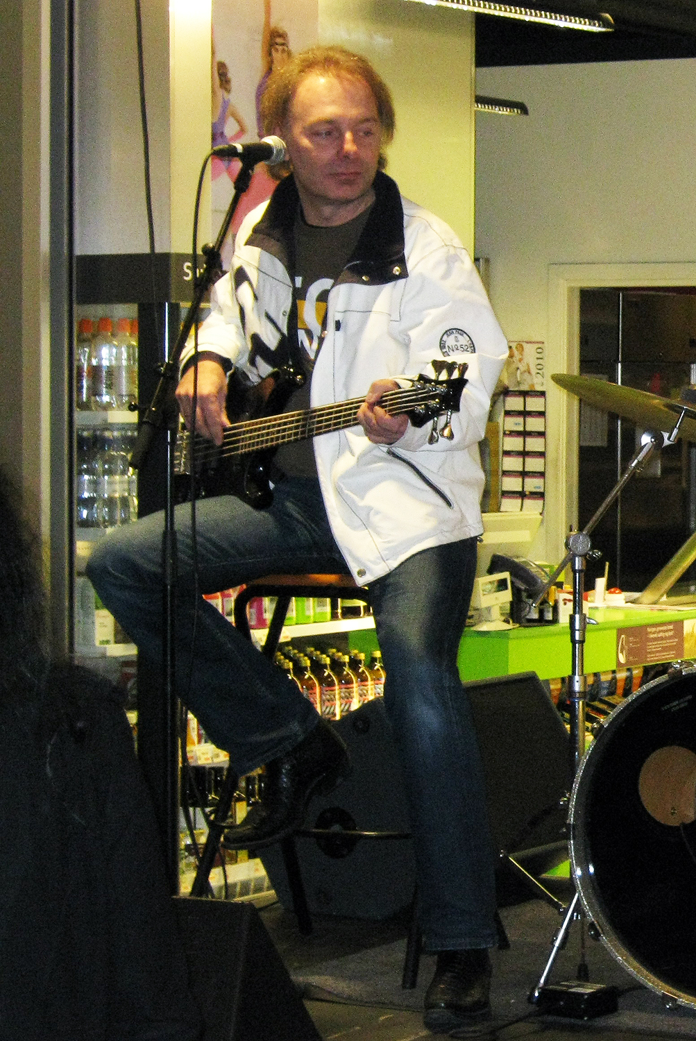 Bass player Terje Storli in Stage Dolls at Amfi Arena in Arendal Norway at Always album signing tour